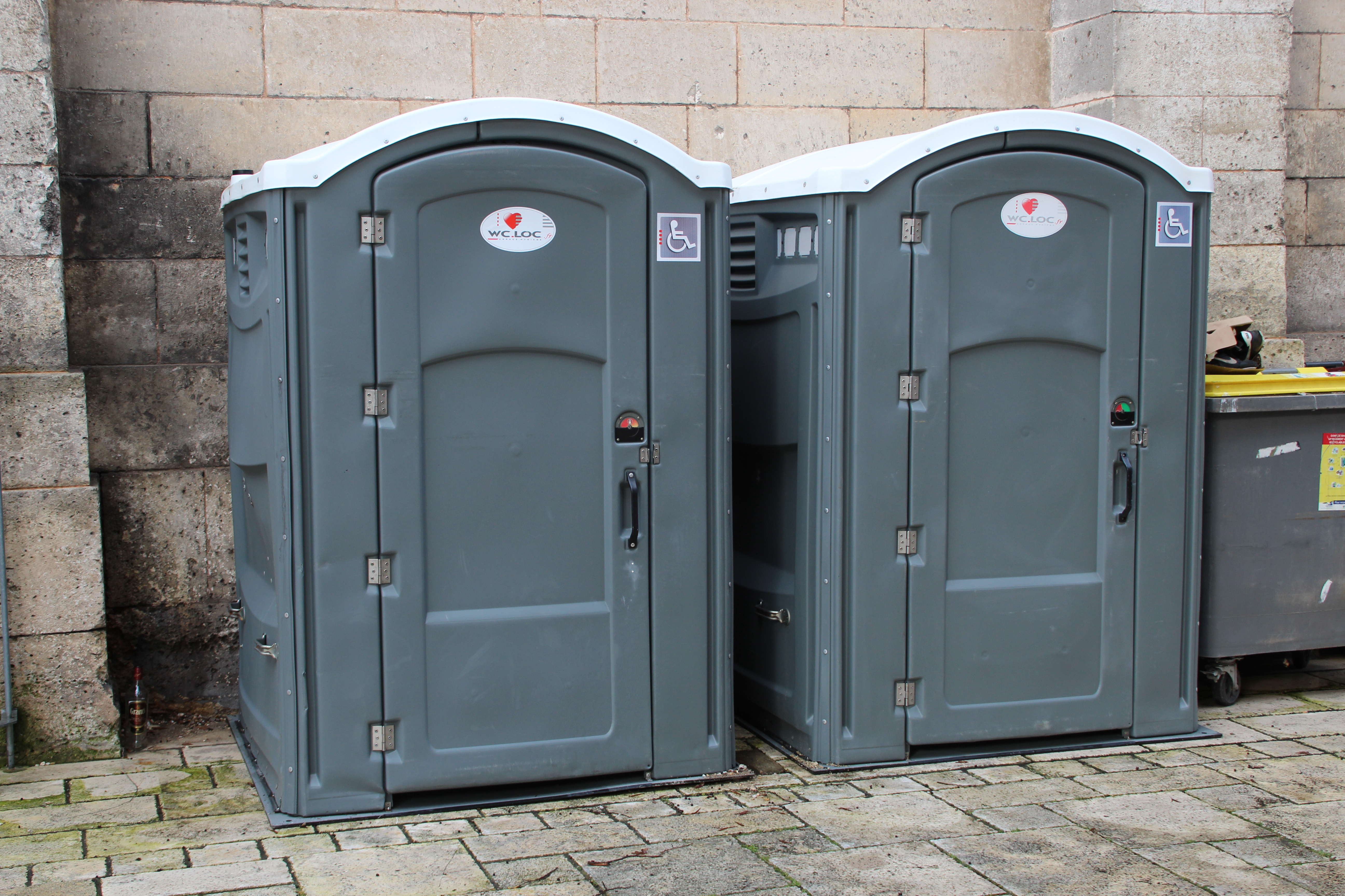 Portable toilets at the Angoulême International Comics Festival 2013.